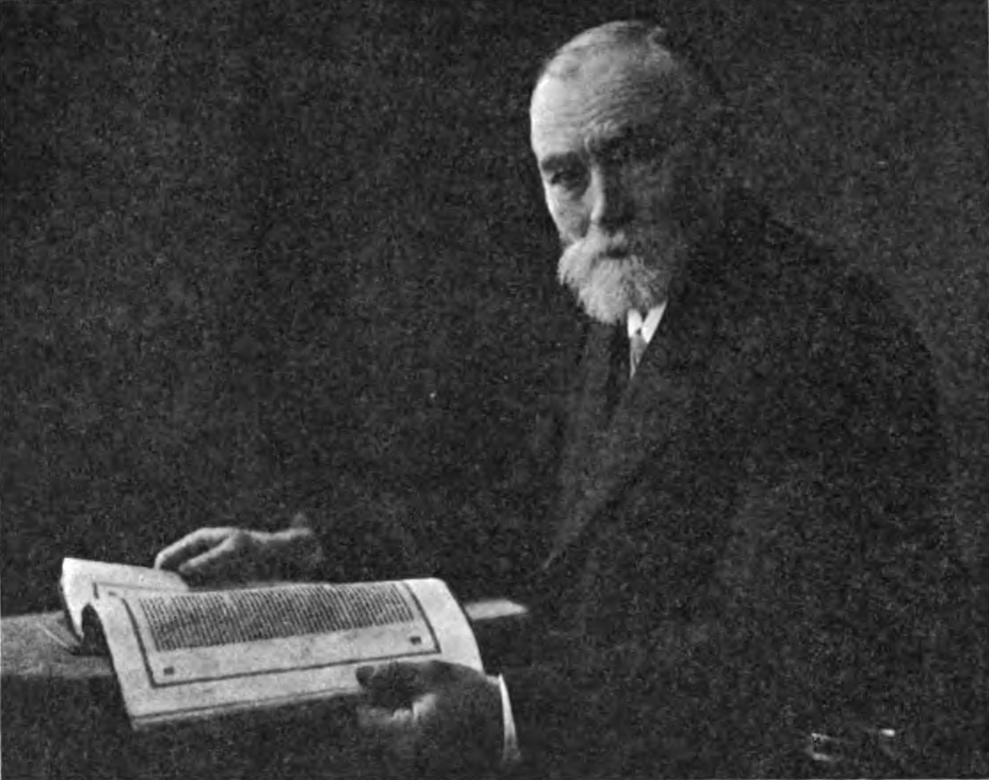 Friedrich Ludwig Gottlob Frege (1848-1925), German mathematician and philosopher